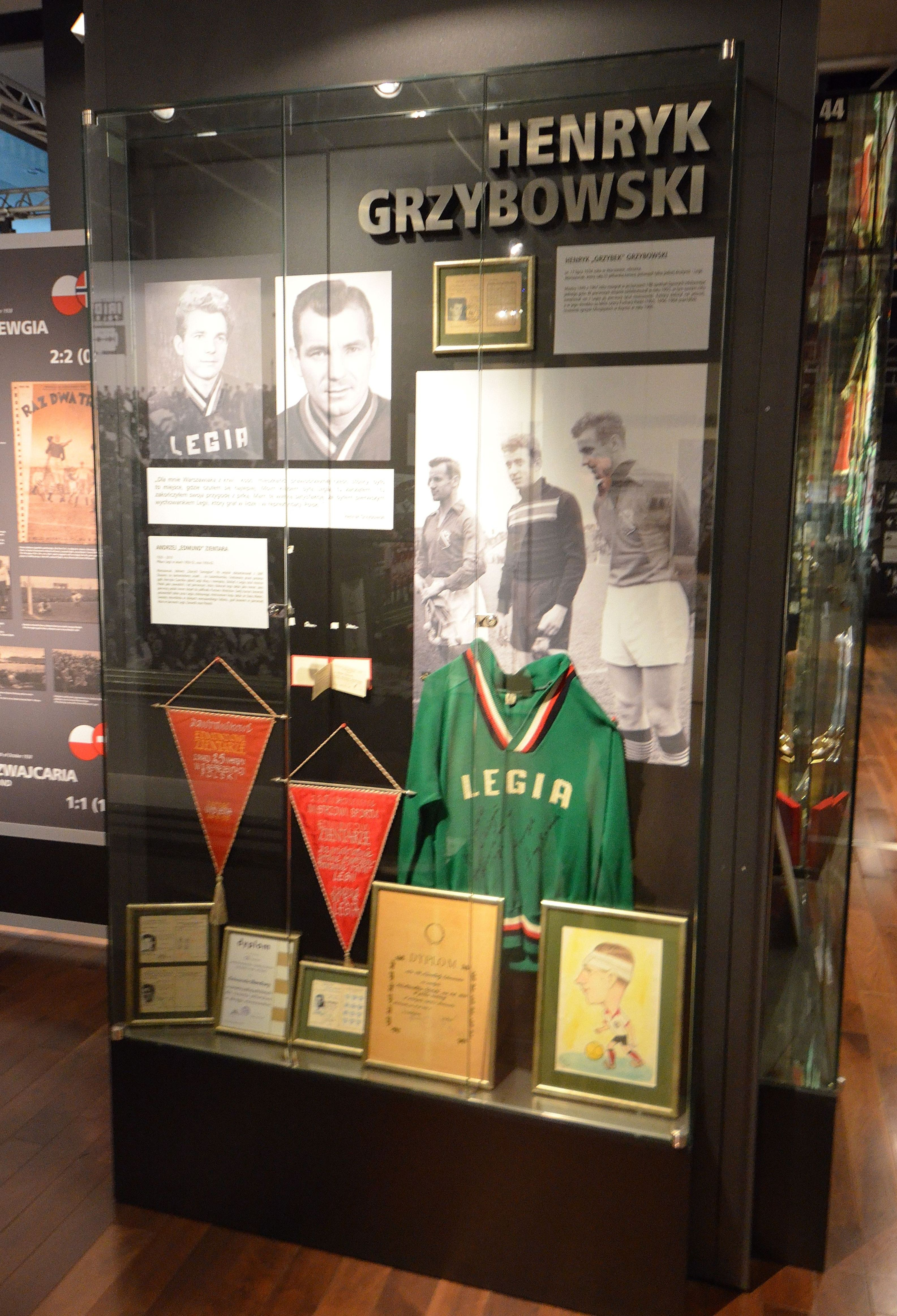 Legia Warszawa Museum